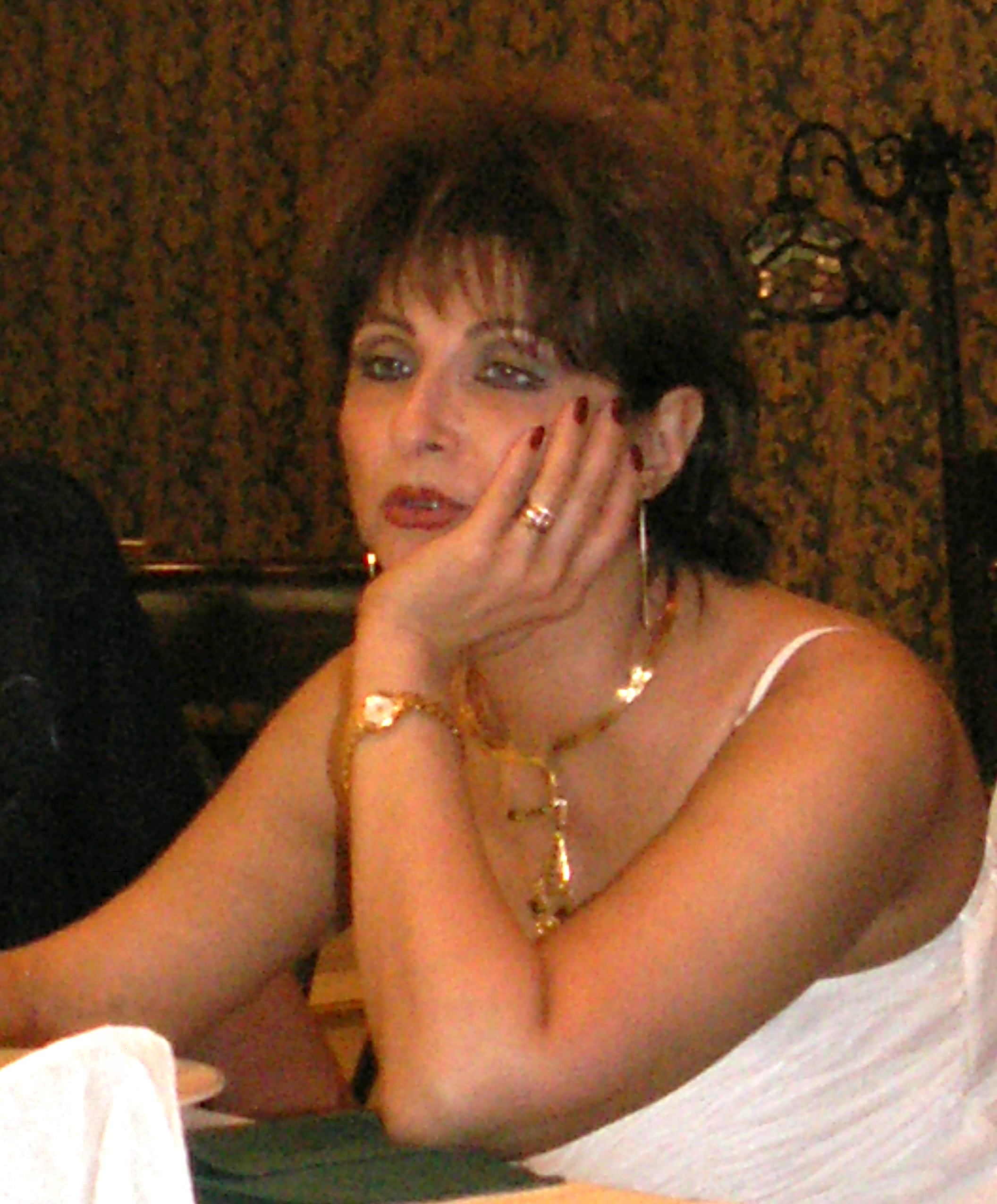 At 51